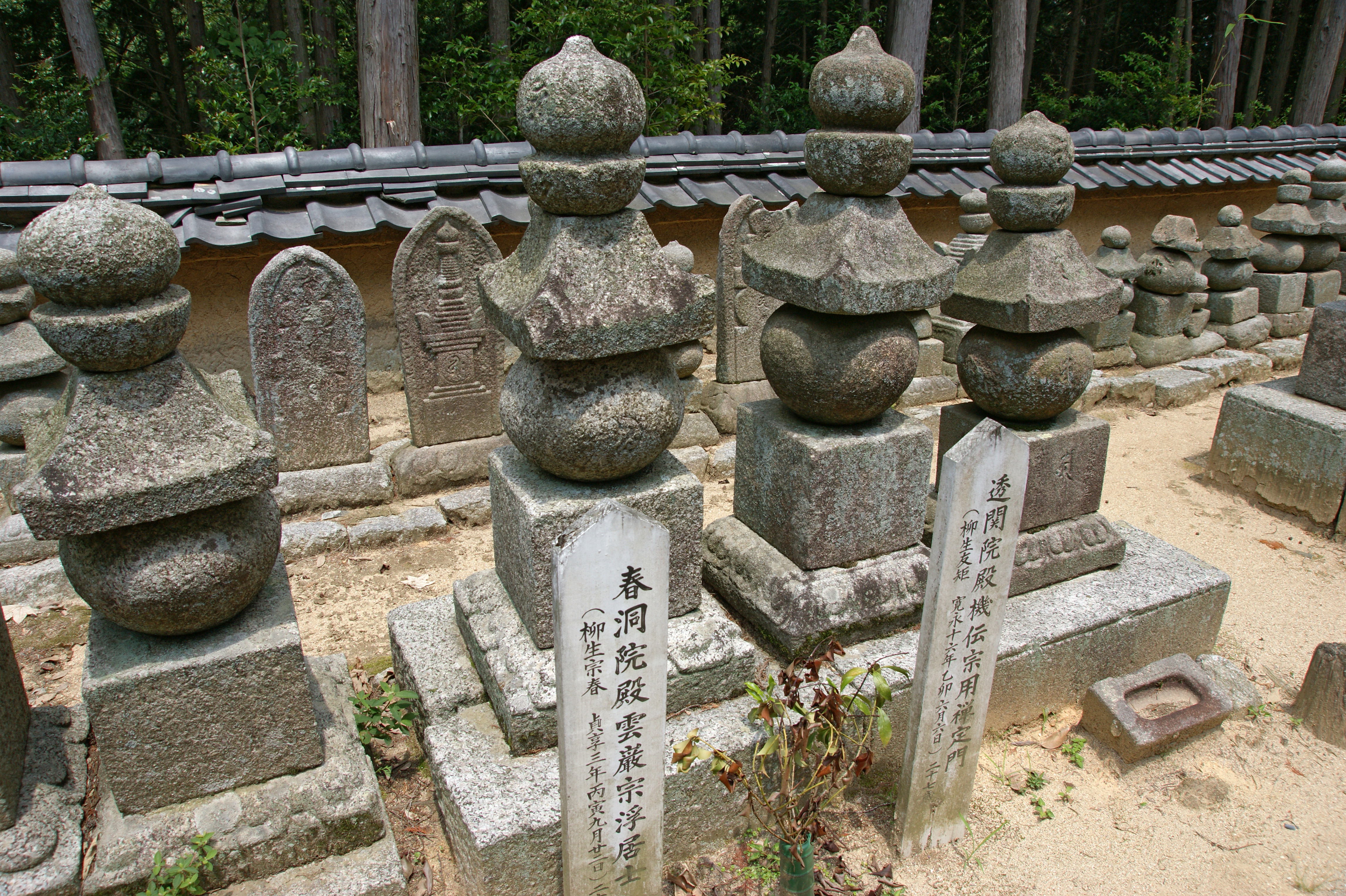 Hotokuji in Nara, Nara prefecture, Japan